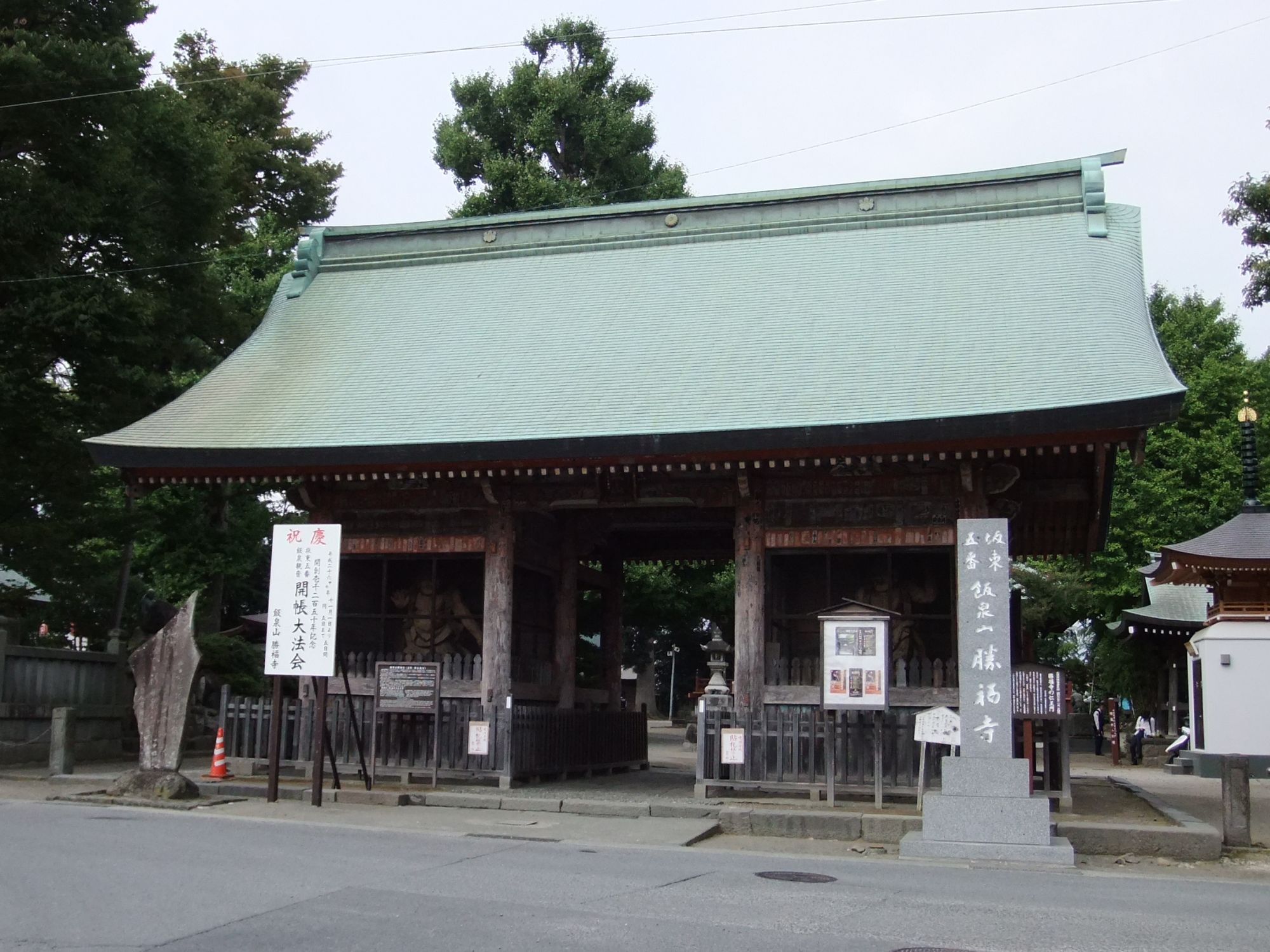 Niōmon gate of Shōfuku-ji temple in Odawara, Kanagawa